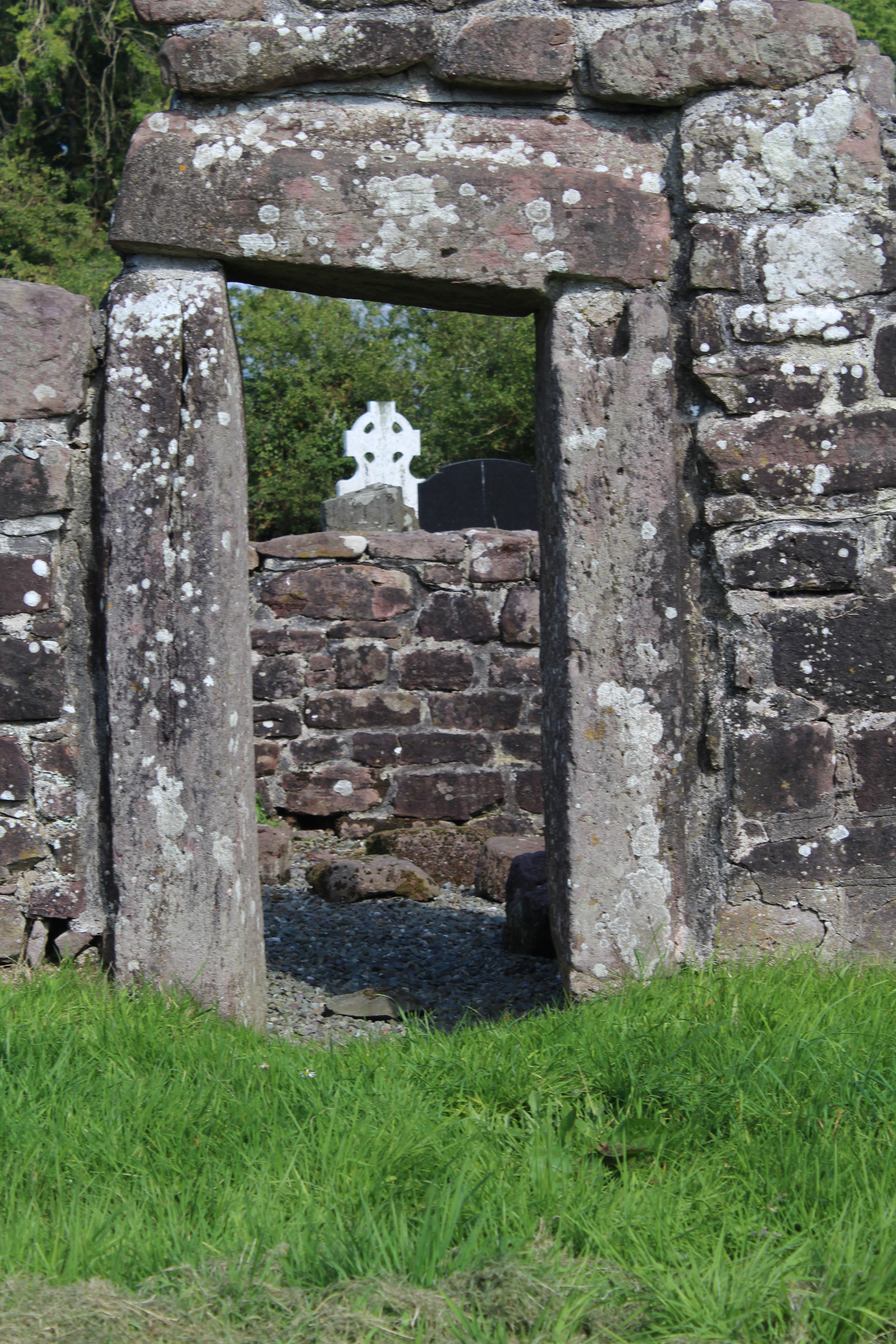 Church door at Leabamologga